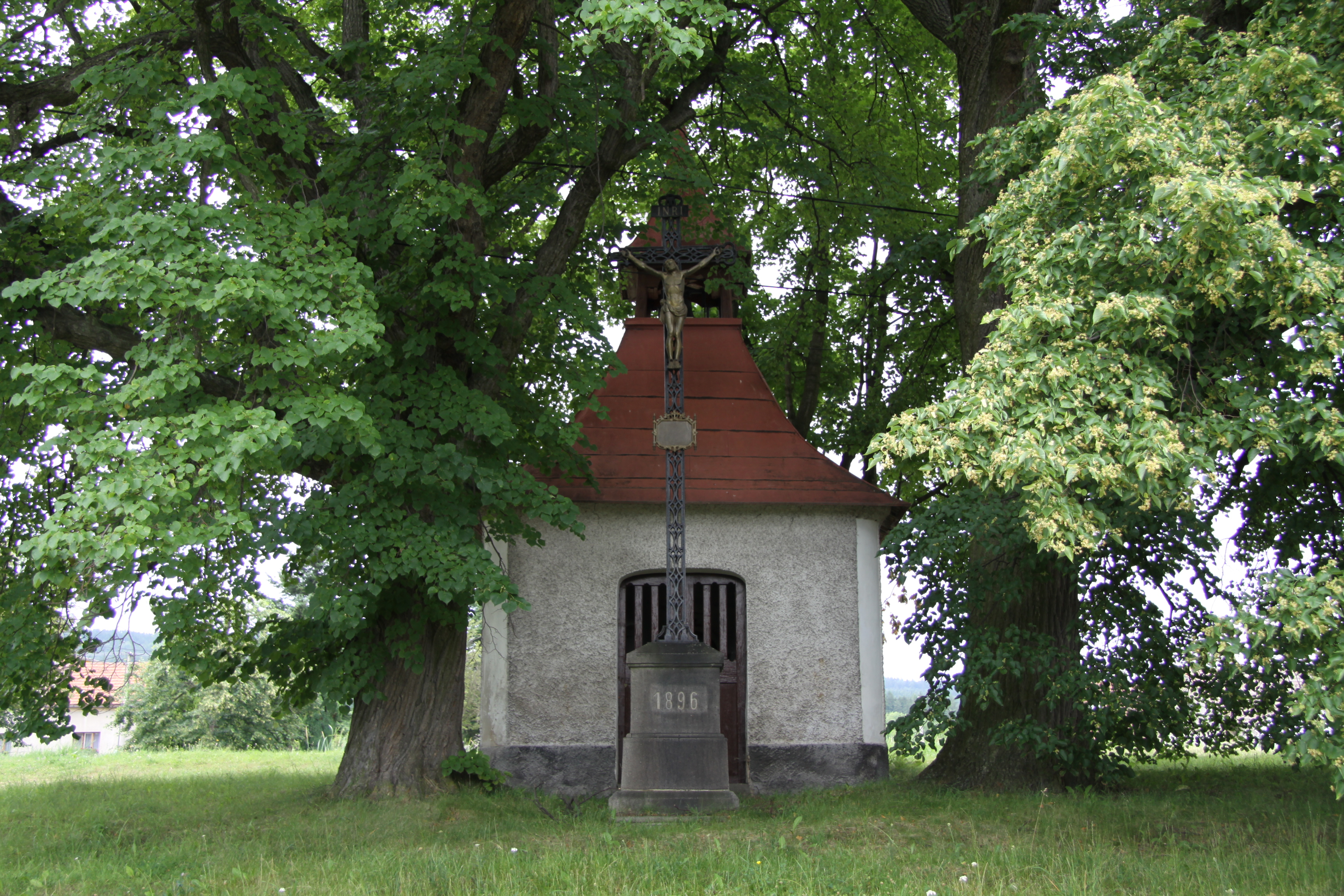 Drahlín village in Příbram District, Czech Republic. Chapel in village